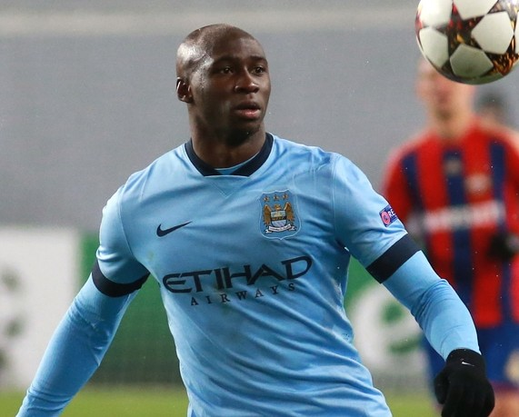 Eliquim Mangala playing for Manchester City in a Champions League clash against CSKA Moscow on 21 October 2014.